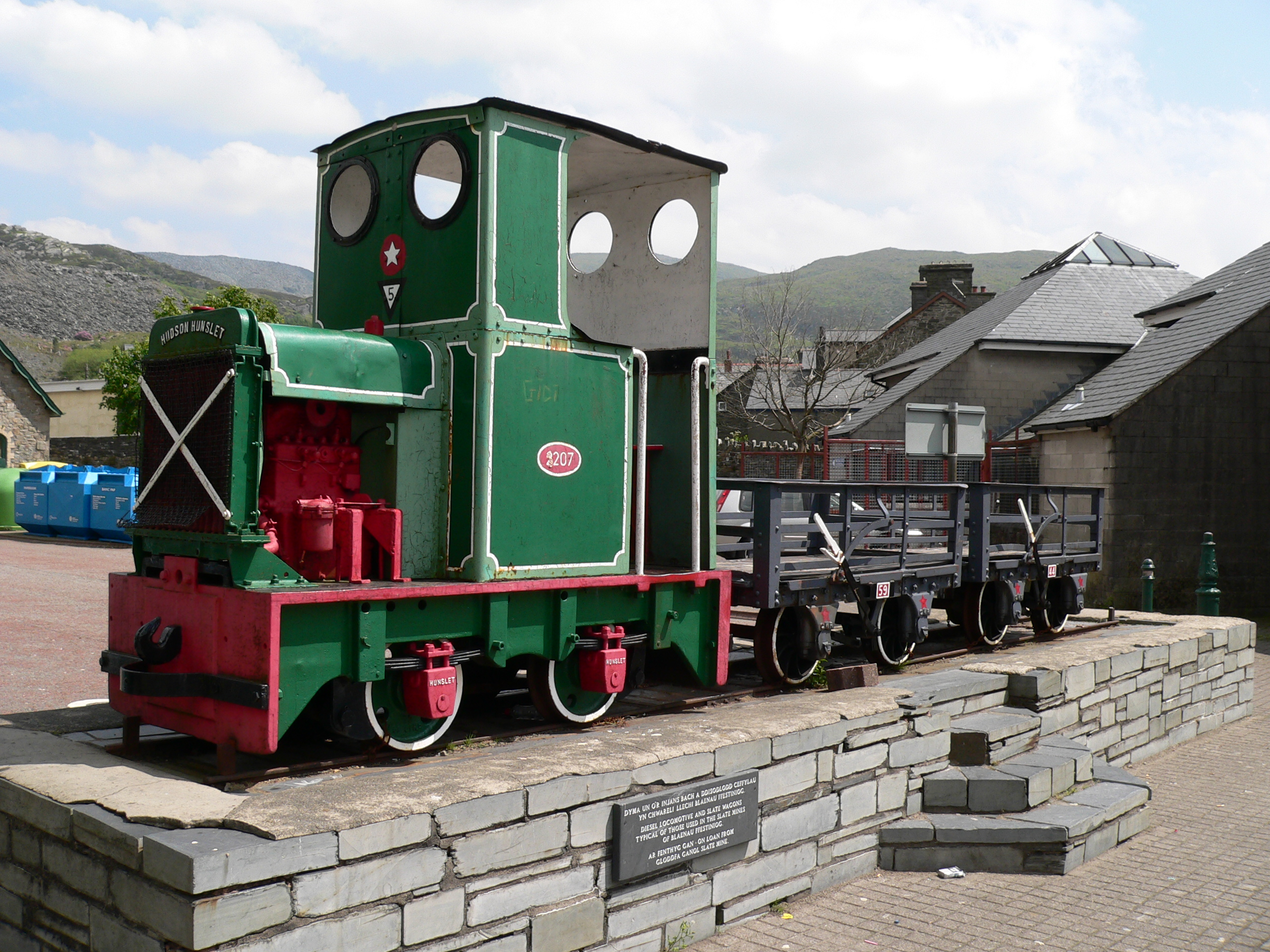 Hudson Hunslet diesel locomotive and slate wagons typical of those used for local slate mining on display at Blaenau Ffestiniog in the area of the old Duffws station, which still stands some 70m behind it.